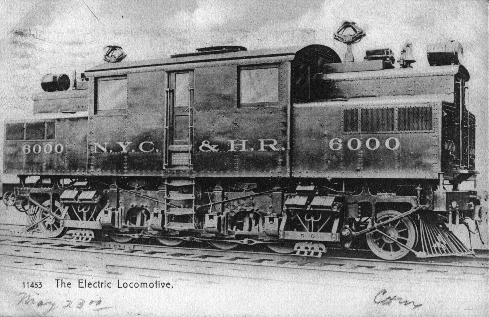 Alco GE Class S-1, shown in the original 1-D-1 configuration; later converted to 2-D-2.